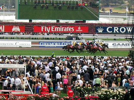 2007 VRC Derby day.